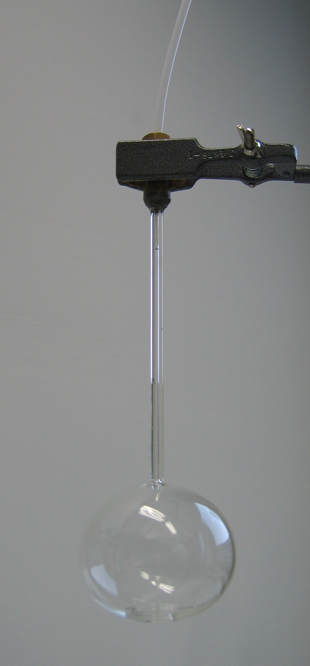 This actually is a thermometer